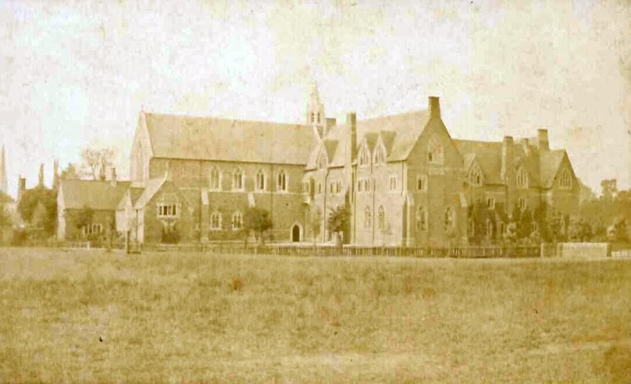 A photograph of Bloxham School, Oxfordshire, taken in circa 1890.